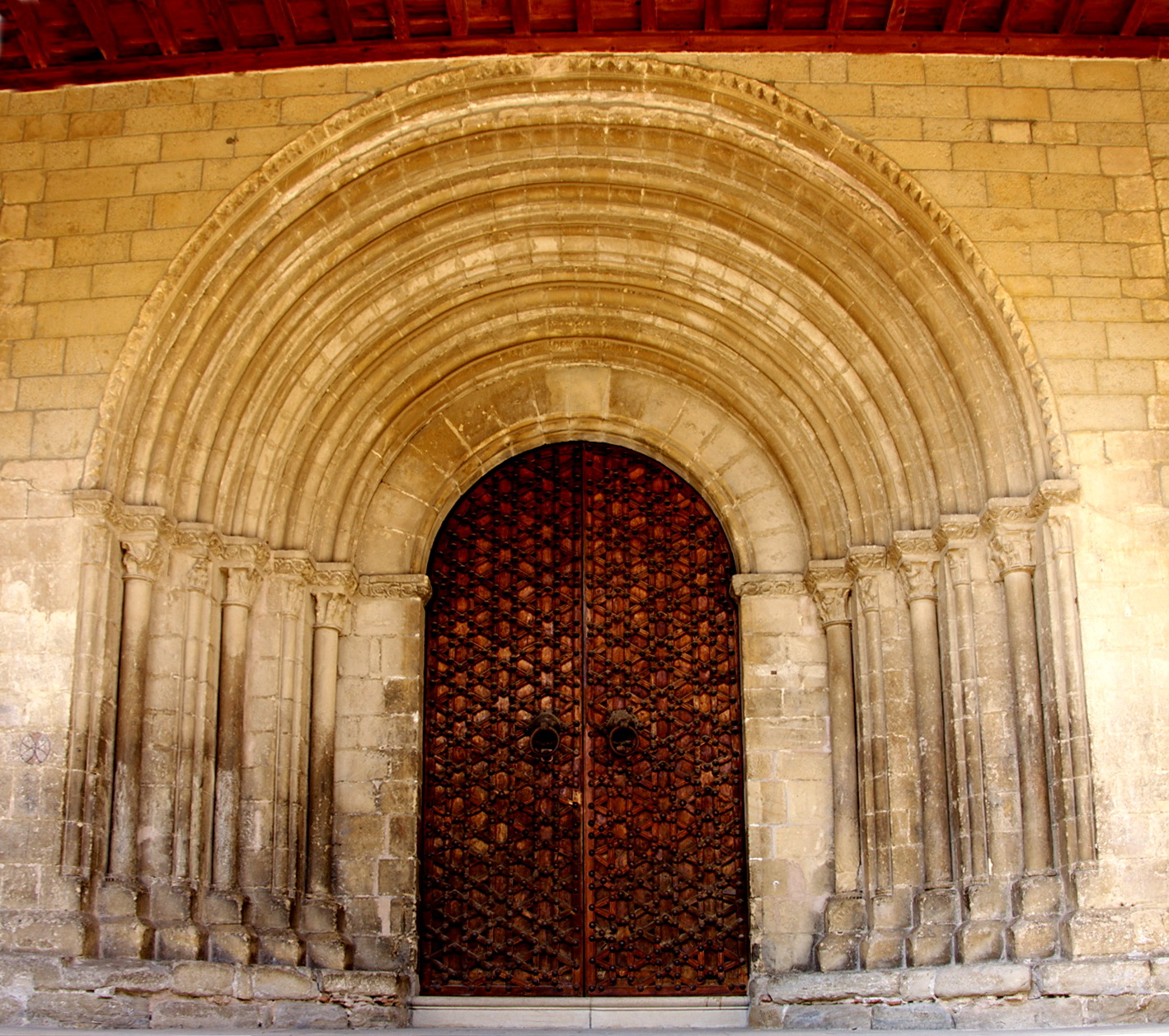 Portic of the San Vicente Cathedral, in Roda de Isábena, Huesca, Spain.